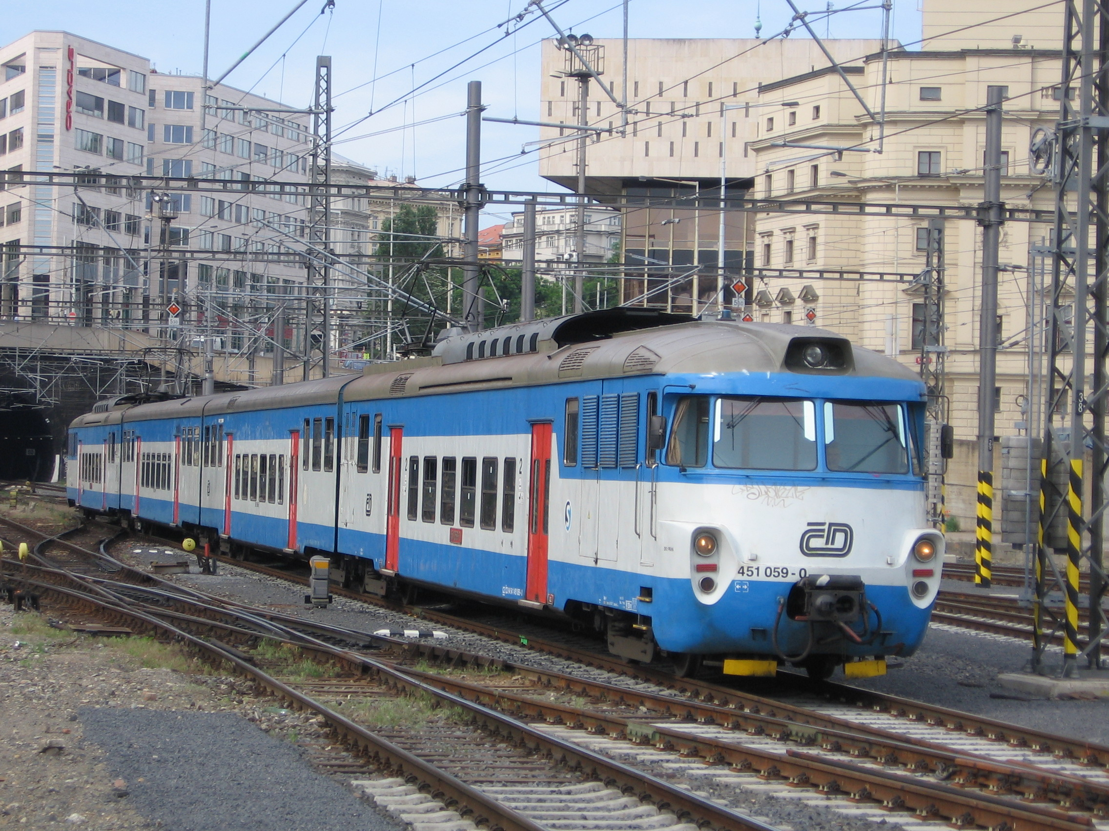 ČD electric suburban unit 451.059-60 at the Prague main station